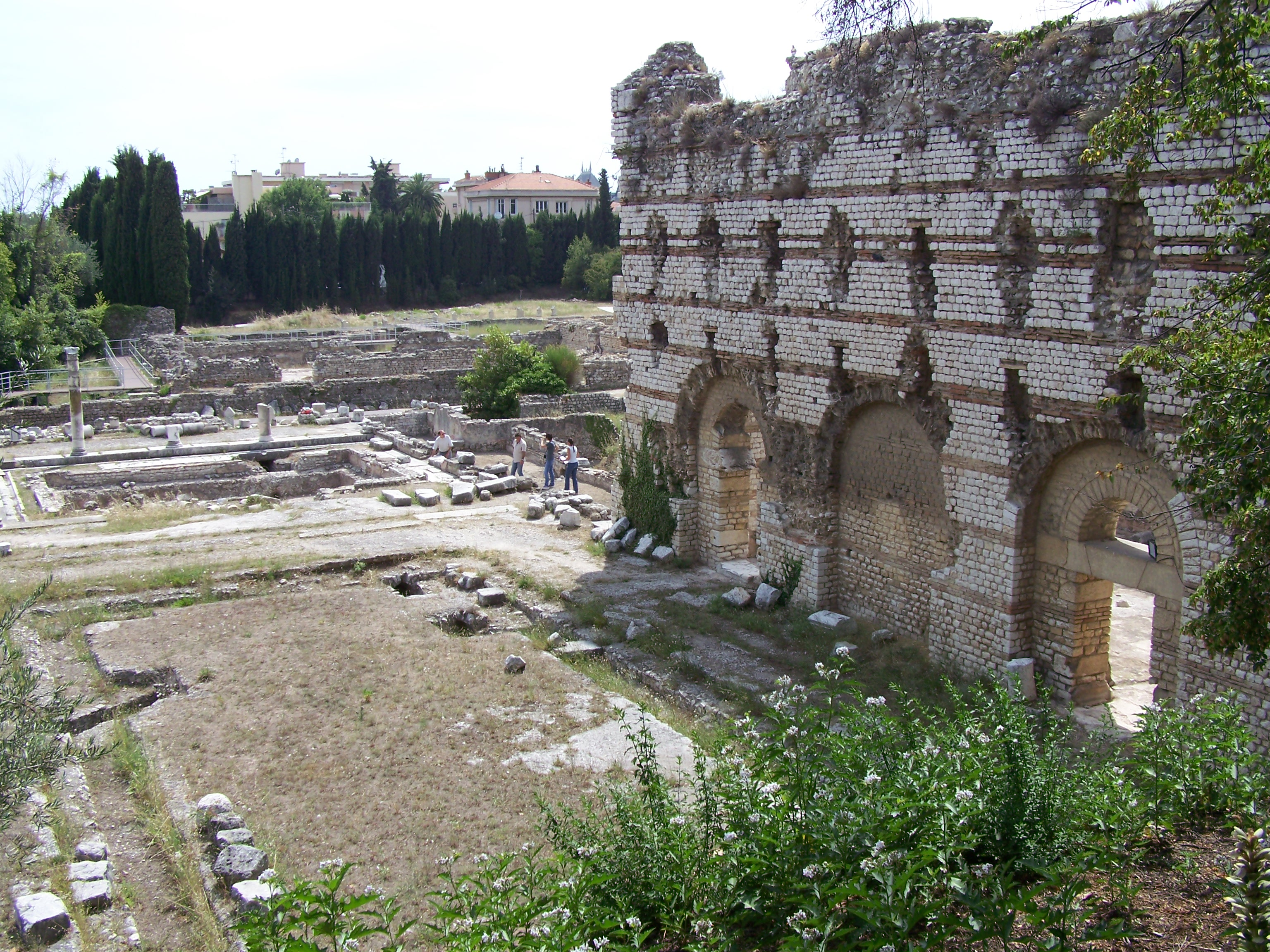 Public baths of the ancient Roman town of Cemenelum in Nice, France.